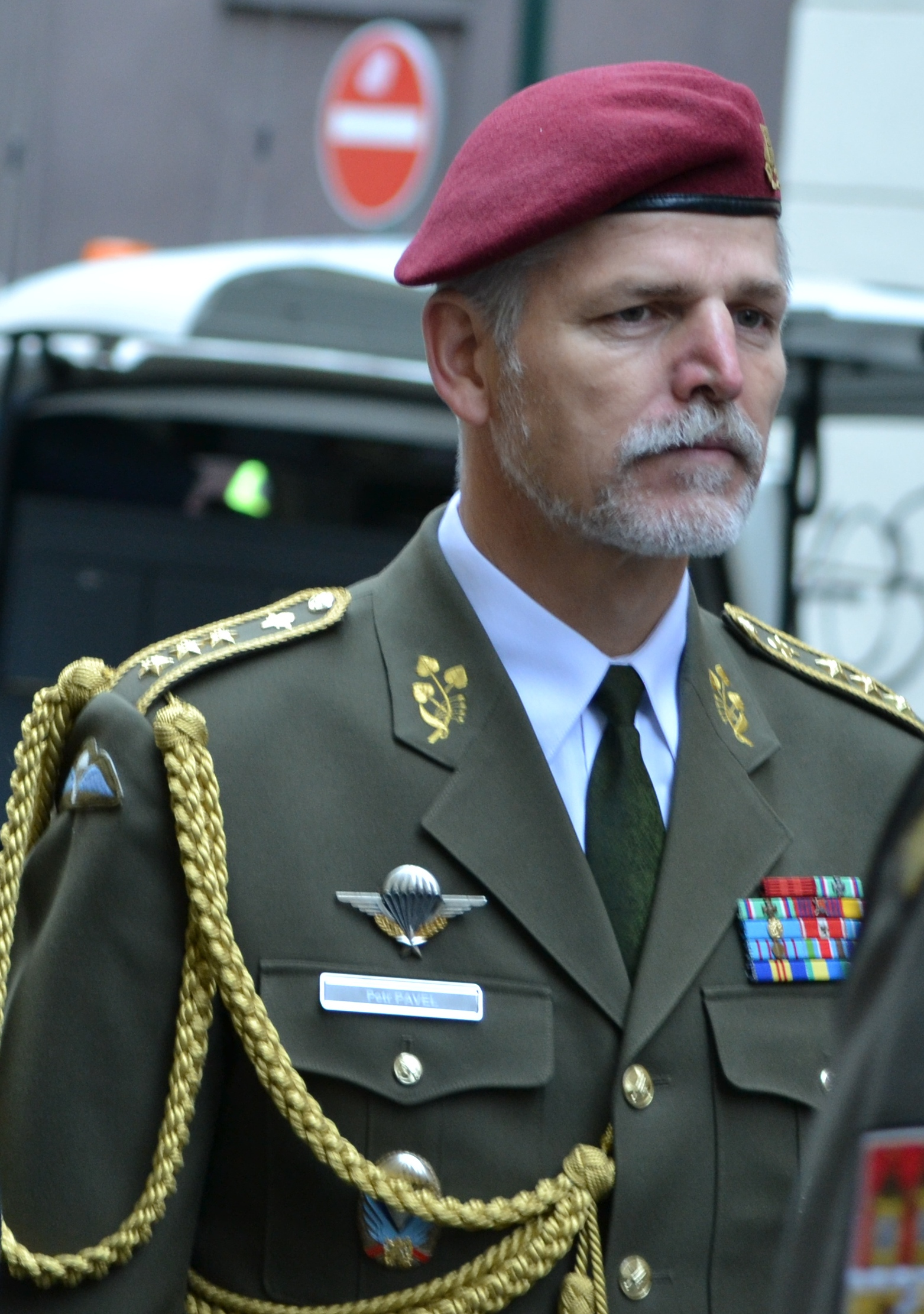 Czech Lieutenant General Petr Pavel, the Chief of the General Staff of the Armed Forces of the Czech Republic. Picture taken in 2012 during a commemorative event on the occassion of 17 Nov. 1939 anniversary at Hlávka Dormitory in Prague.